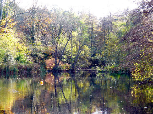 Millpond near Great Enton. One of a string of mill ponds on the eastern side of Witley.